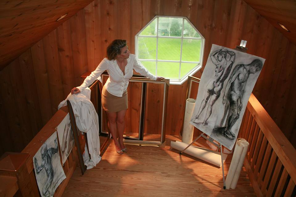 Jennifer Kaiser female prowrestler in her Michigan home Studio with her original human figure drawings June 10th, 2013 after match